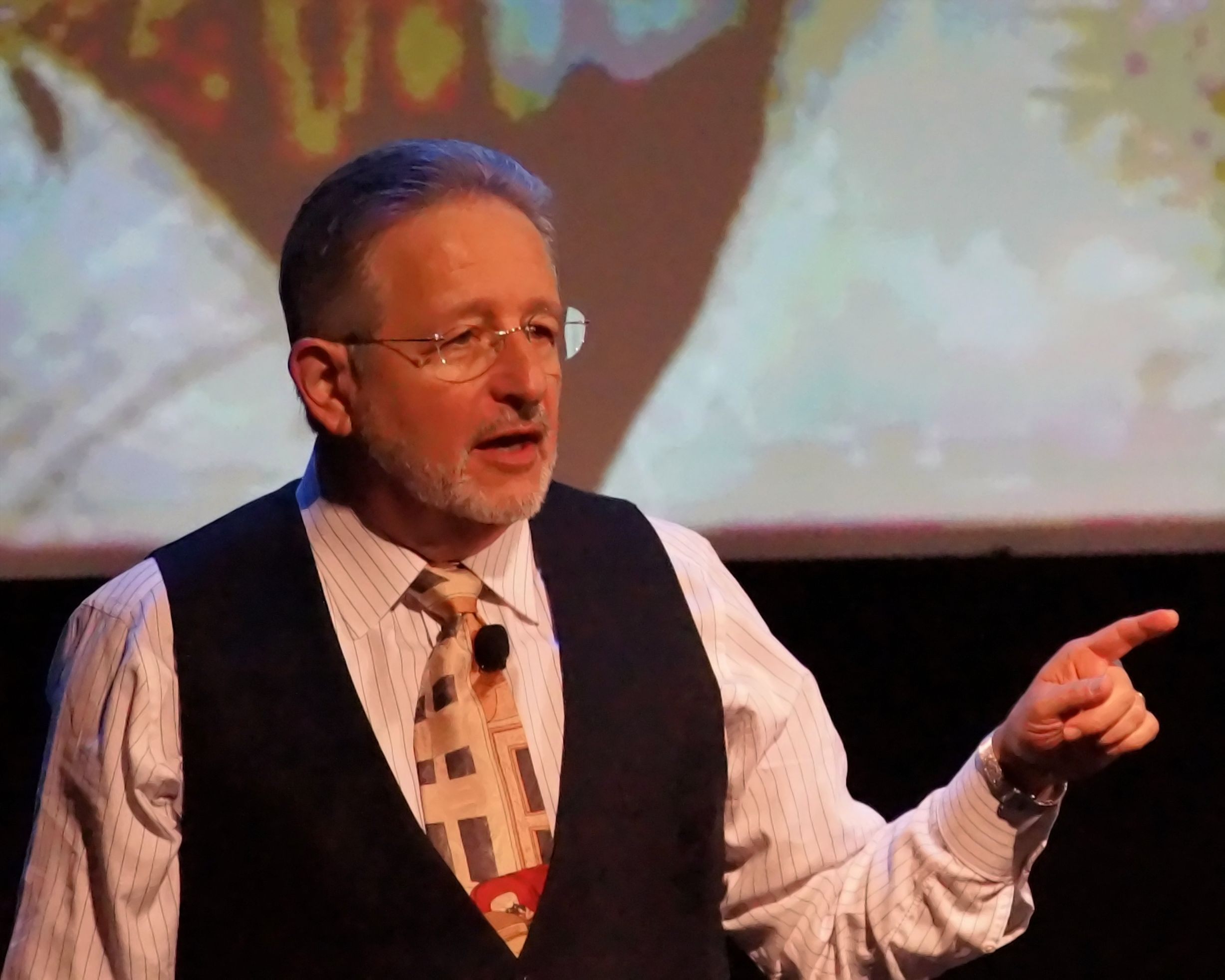 Marty Klein addressing the "War on Sex" during the Northeast Conference on Science and Skepticism, April 11, 2015, at the Fashion Institute of Technology in New York City.